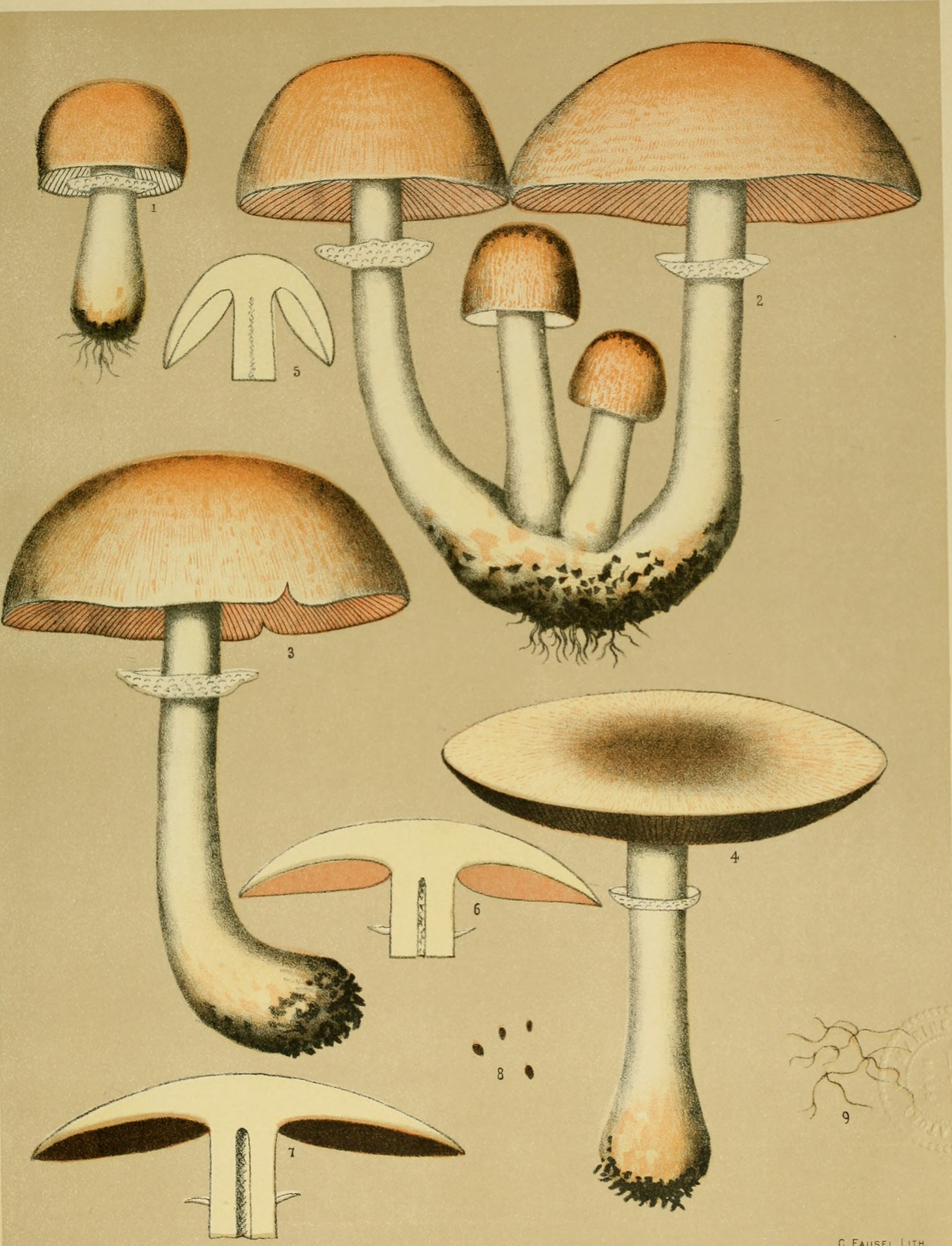 Title: Annual report of the state botanist Identifier: annualreportofst1897newy Year: 1897 (1890s) Authors: New York (State). State Botanist; Peck, Charles H. (Charles Horton), 1833-1917 Subjects: Botany -- New York (State); Fungi -- New York (State) Publisher: Albany, University of the State of New York Text Appearing Before Image: EDIBLE FUNGI. Plate 7 Text Appearing After Image: C H.PrcK.DtL C.Fausel.Lith., "Ji ACARICUS SUBRUFESCENS peck SLIGHTLY REDDISH MUSHROOM.